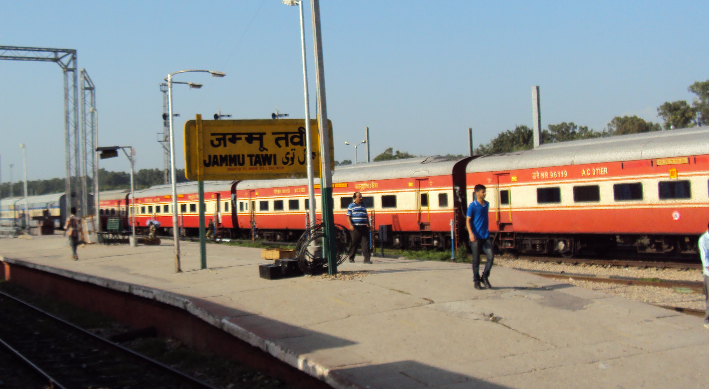 Jammu Tawi to Delhi - Rail side views